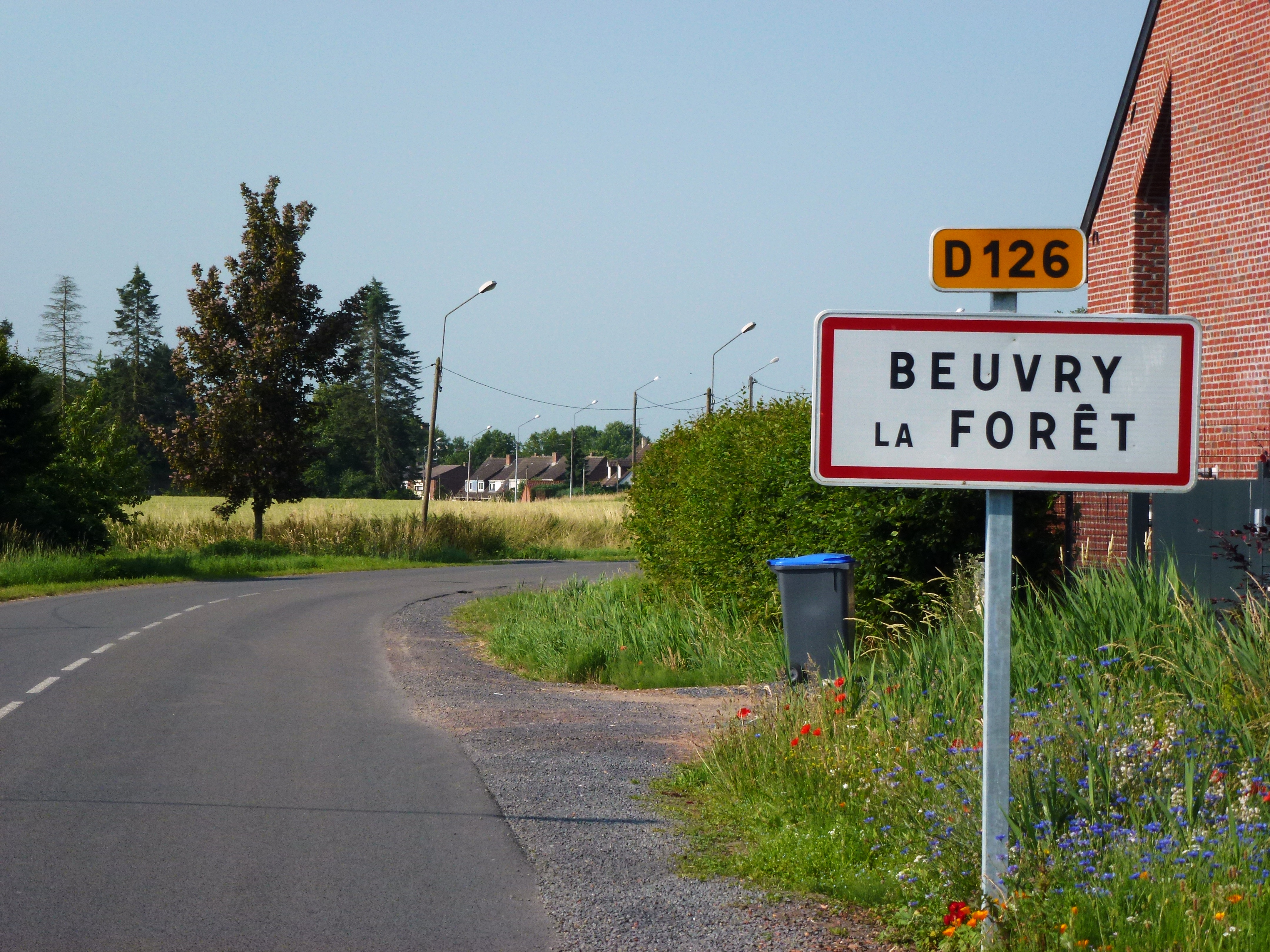 Beuvry-la-Forêt (Nord, Fr) city limit sign